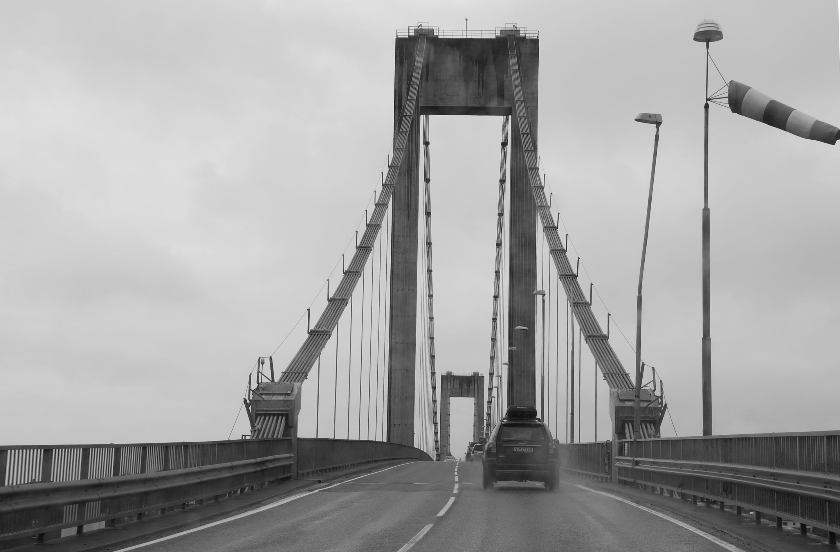 April 7th 504